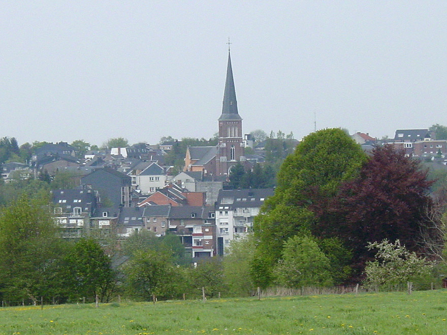 View of Kelmis Photograph taken by David Edgar on 7th May 2006.